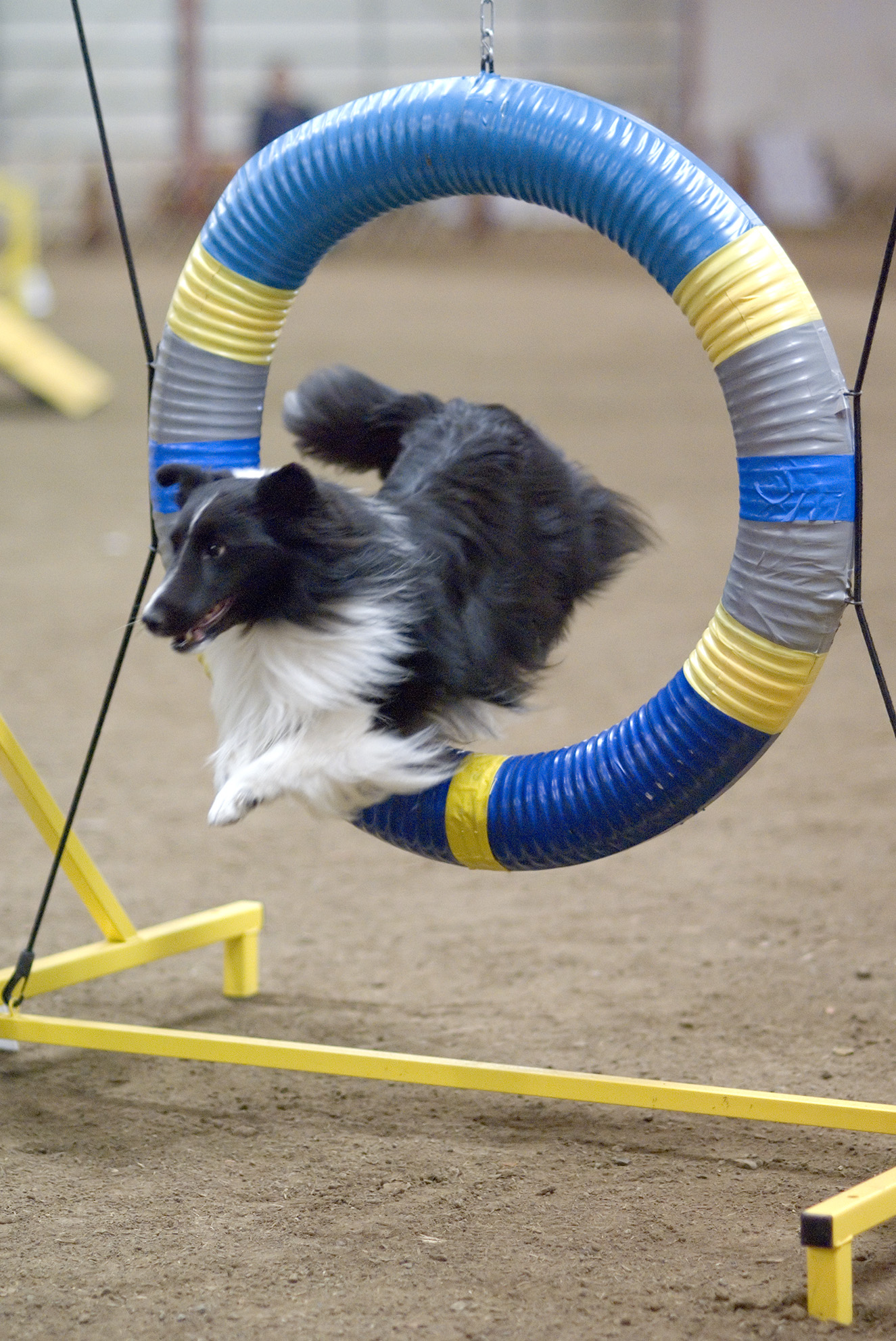 A bi-black Sheltie doing agility.